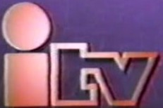 ITV's logo